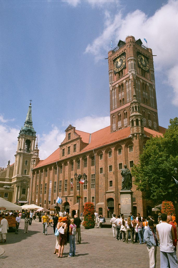 Toruń, Old-Town Hall, view from the south-east